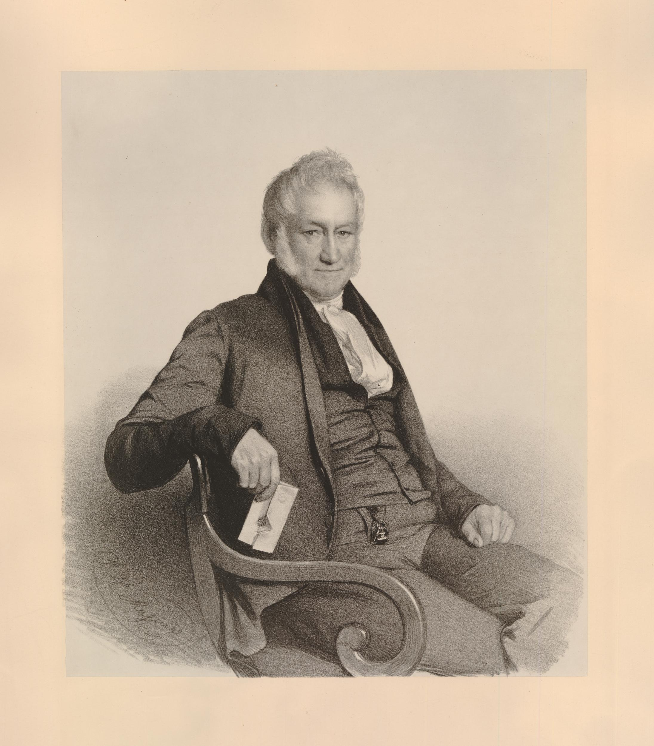 Portrait of James Ransome, three-quarter length sitting in chair to right, letter in his right hand; proof before letters. 1849 Lithograph, on rectangular chine collé